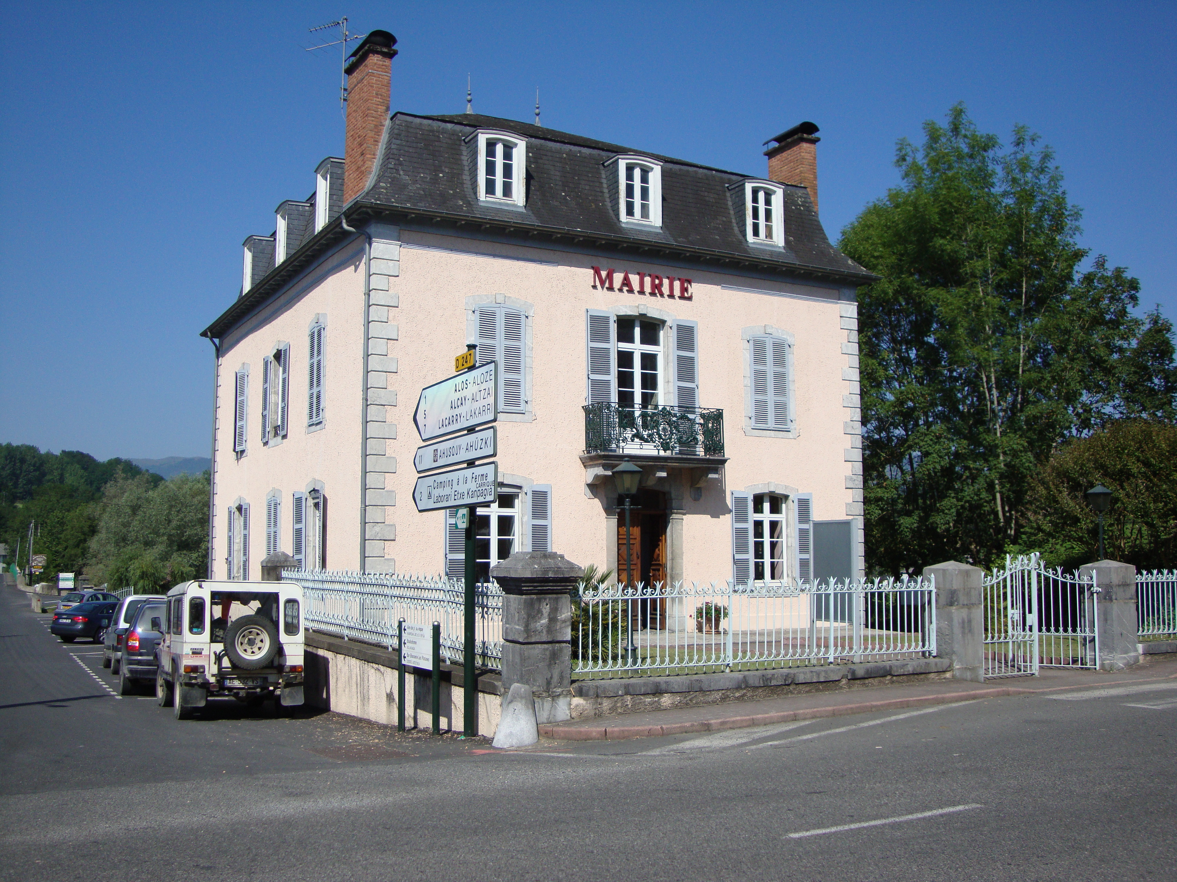 Tardets-Sorholus (Pyr-Atl, Fr) actuel town hall